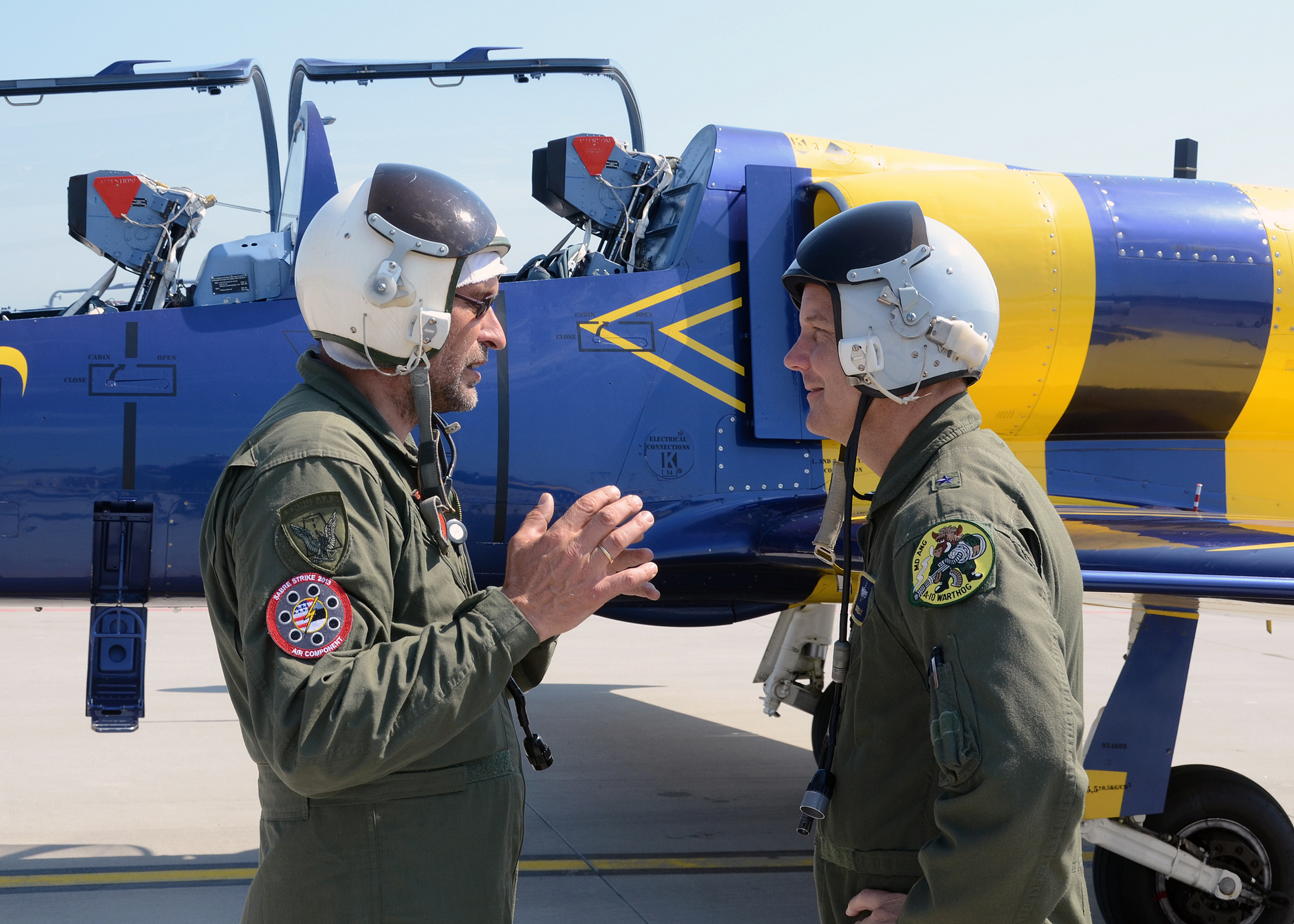 Estonian air force Lt. Col. Arvo Palumãe, left, speaks with U.S. Air Force Brig. Gen. Scott Kelly, the commander of the 175th Wing, Maryland Air National Guard, before a flight in an Estonian air force L-39 Albatros fighter aircraft at Ämari Air Base in Estonia June 6, 2013, during exercise Saber Strike 2013. Saber Strike is a U.S. European Command-sponsored, Joint Chiefs of Staff-directed regional and multilateral command post and field exercise designed to increase interoperability between the United States and partner nations.